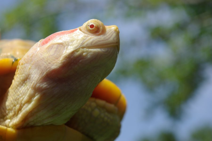 Amelanotic Trachemys scripta elegans